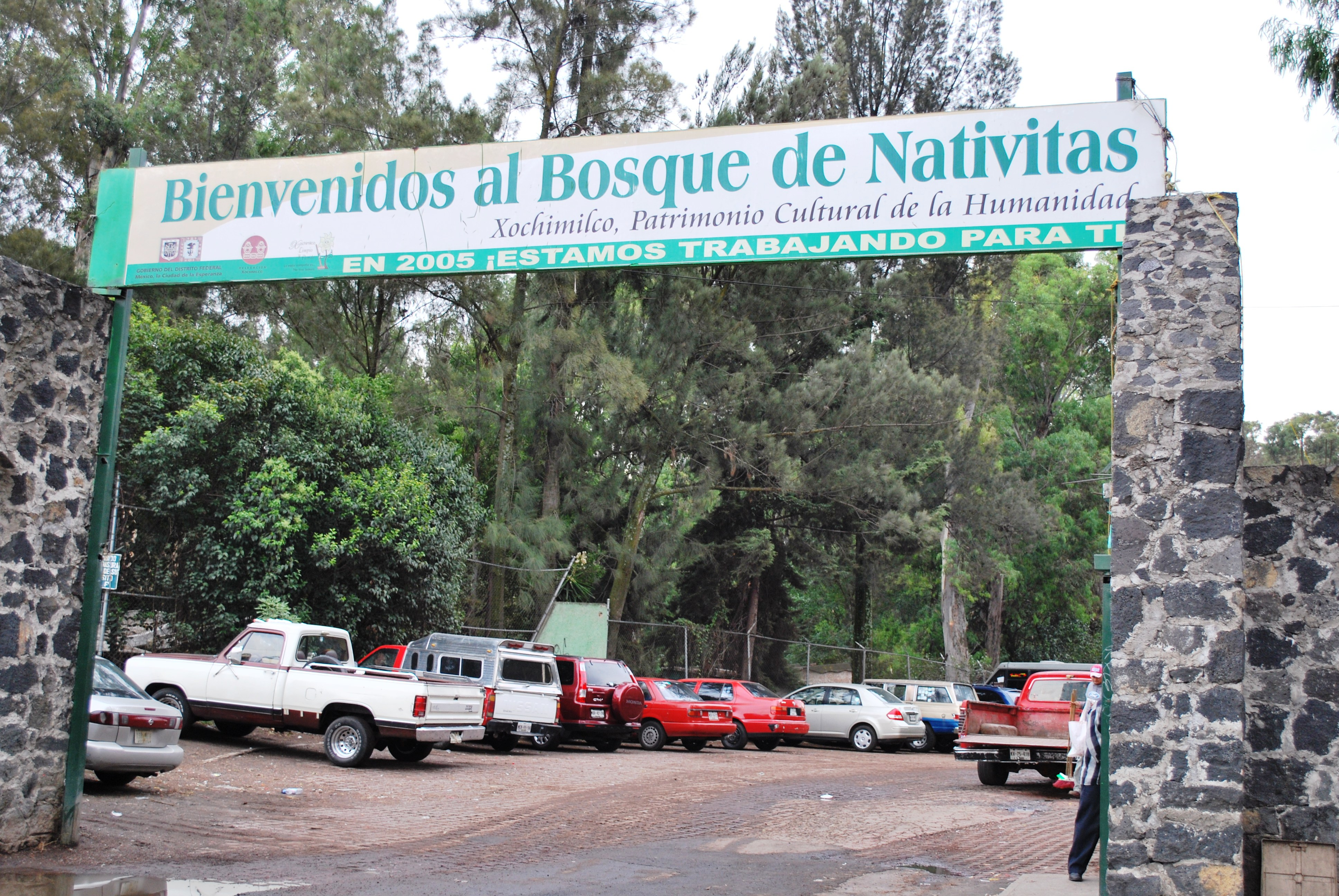 Entrance to Bosque de Nativitas Park located in Xochimilco, Mexico City